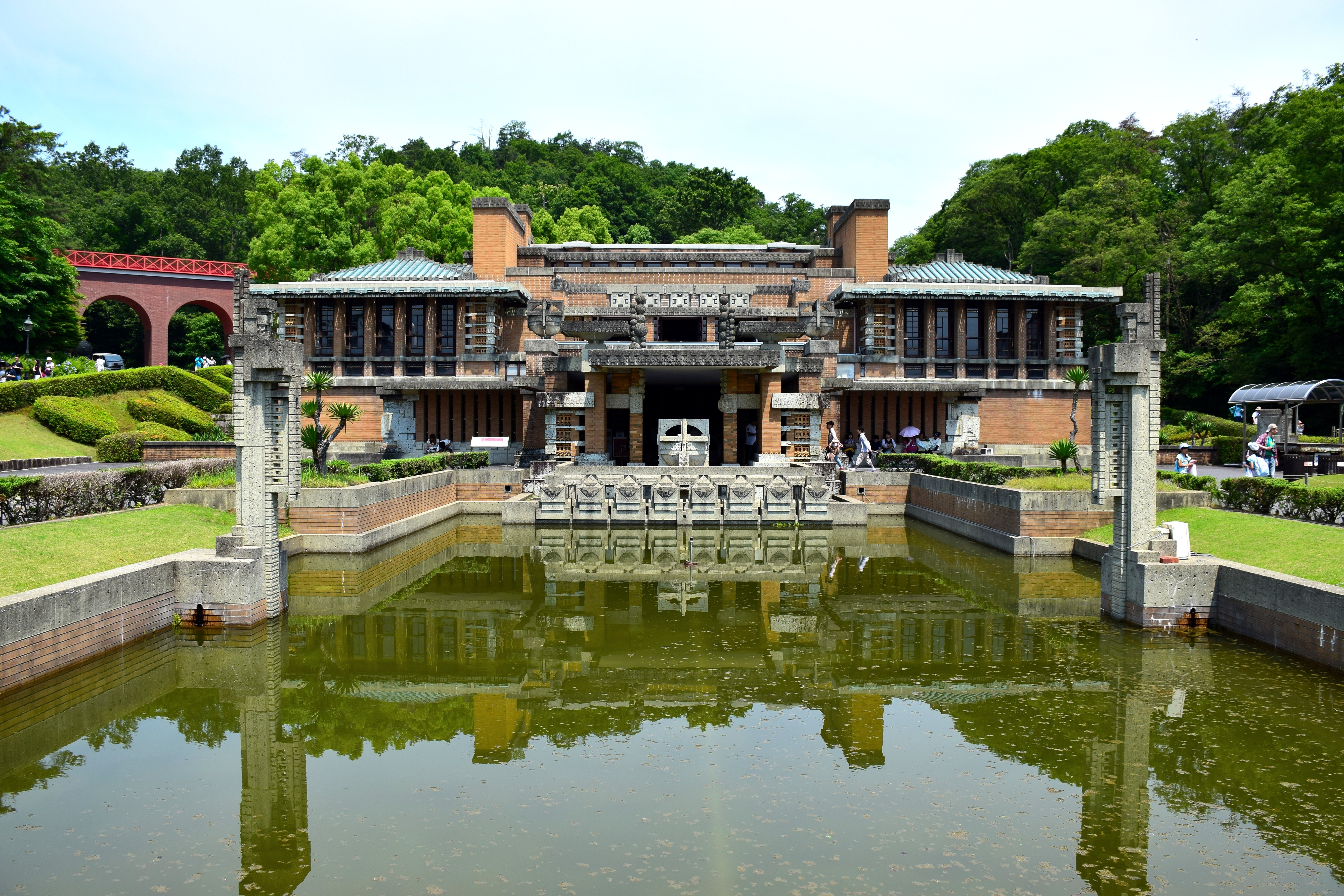 This is the Main Entrance Hall and Lobby of the Imperial Hotel. Uchisaiwai-chou Chiyoda-ku Tokyo, built in 1923. It is preserved in the Museum Meiji-mura (in Inuyama, near Nagoya in Aichi prefecture, Japan).